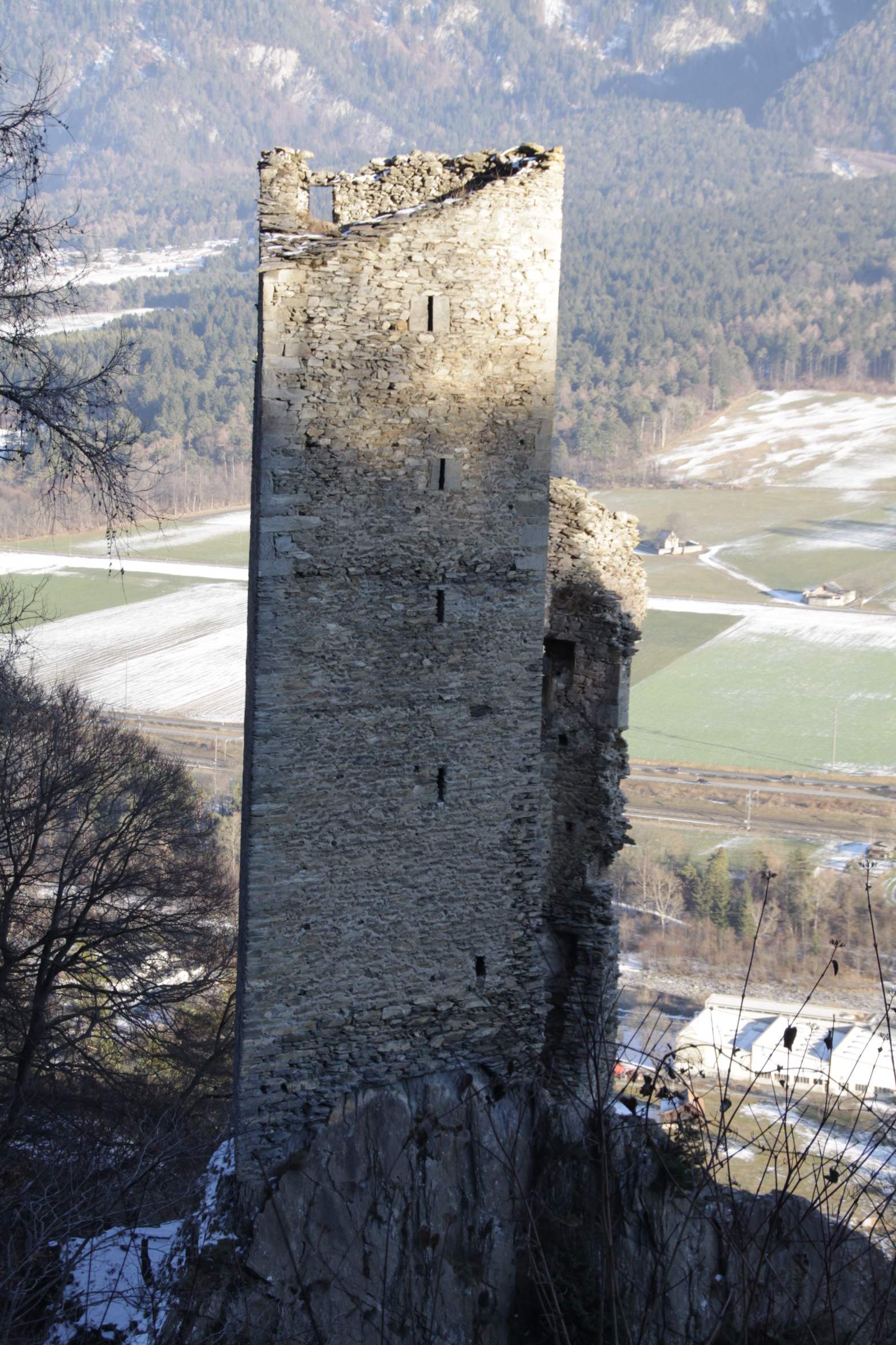 Ruine Haldenstein / Switzerland